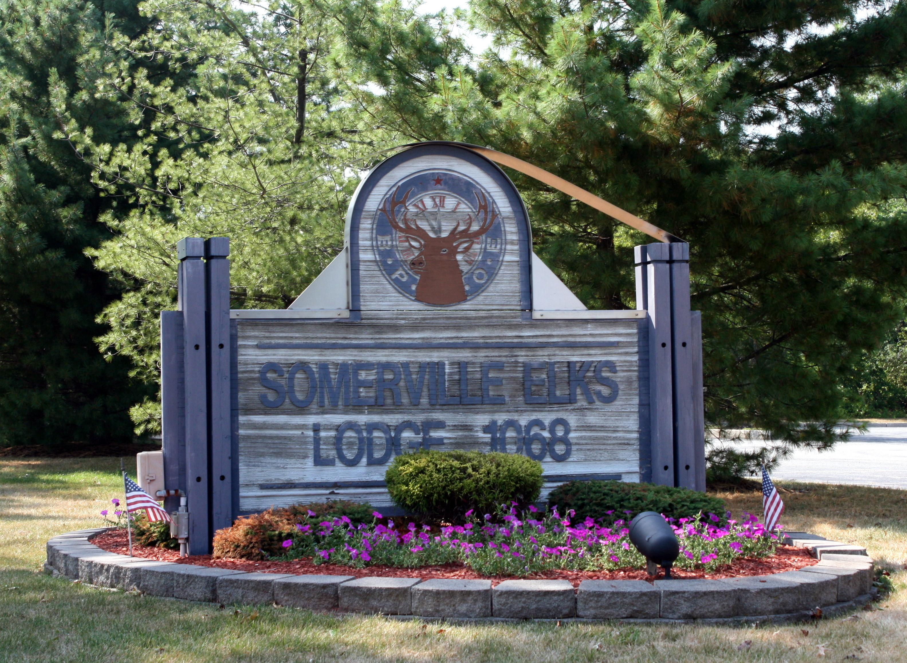 Elks Lodge in Bridgewater Township, New Jersey